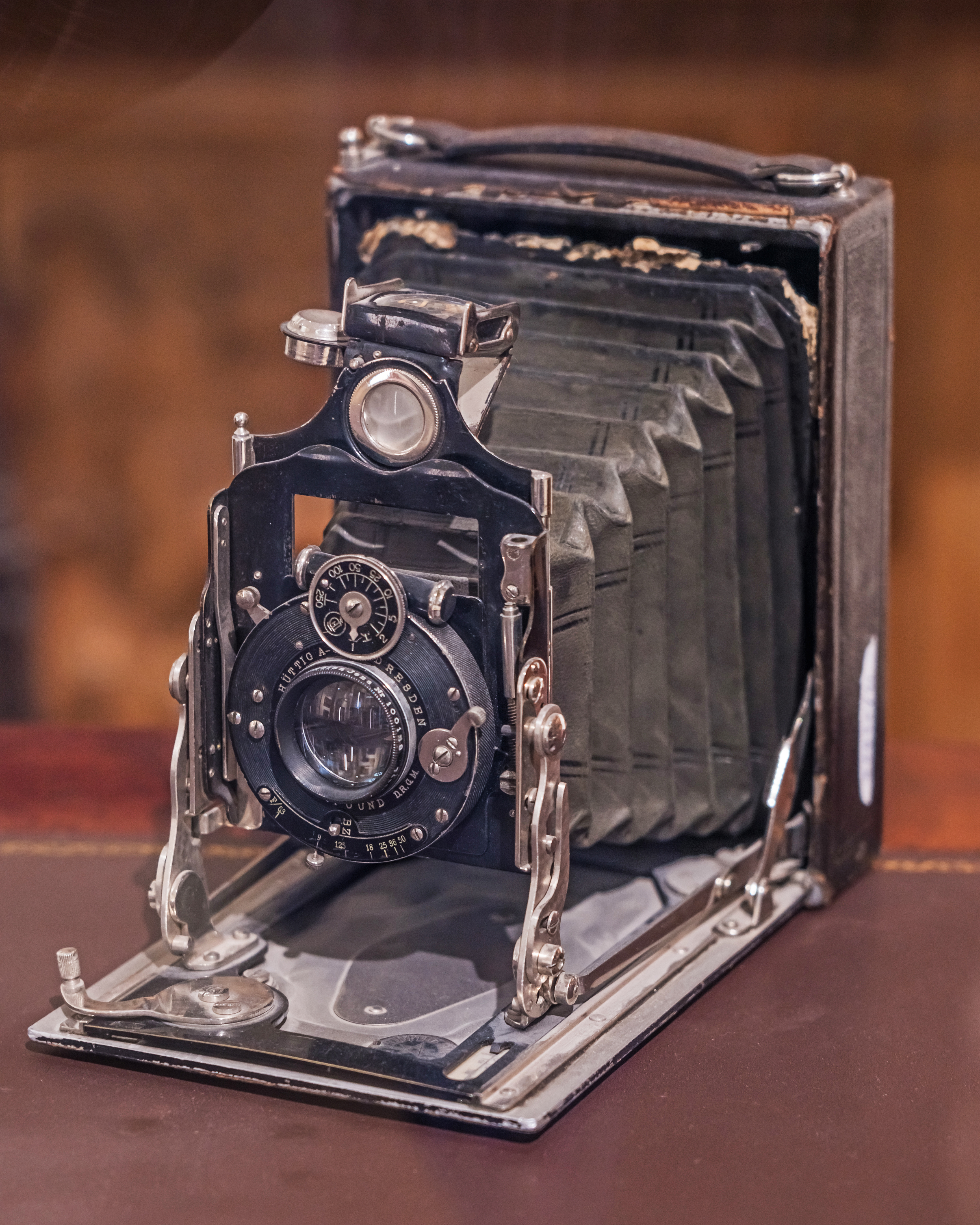 Interior of the former English Club building (Museum of Contemporary History of Russia) in Moscow, Russia. The photo shows a Cupido still camera by Hüttig, manufactured in Dresden in the early 20th century, formerly owned by Nikolay Urvantsev.